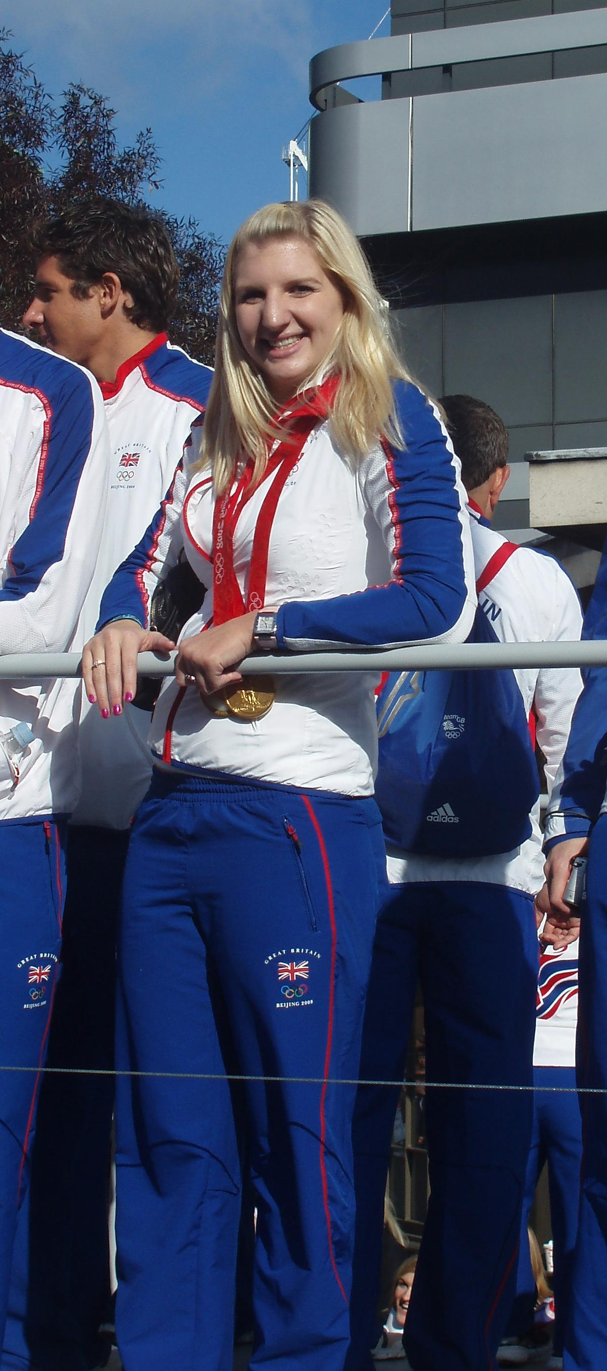 Rebecca Adlington on the British Olympic team Parade in London.